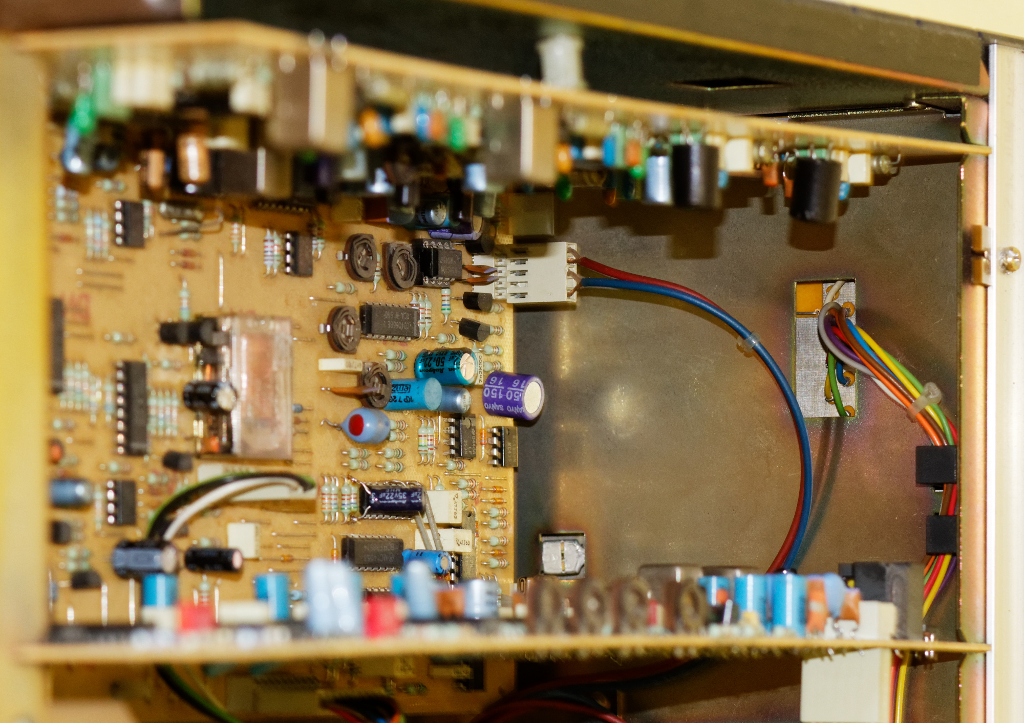 Audio channel boards of the Revox B215 cassete deck. Top to bottom: double Dolby board, replay channel / input-output motherboard, and recording channel board. Each board spans the whole enclosure, front to back, around 30 cm. long. The head amp is in top far corner on the motherboard.